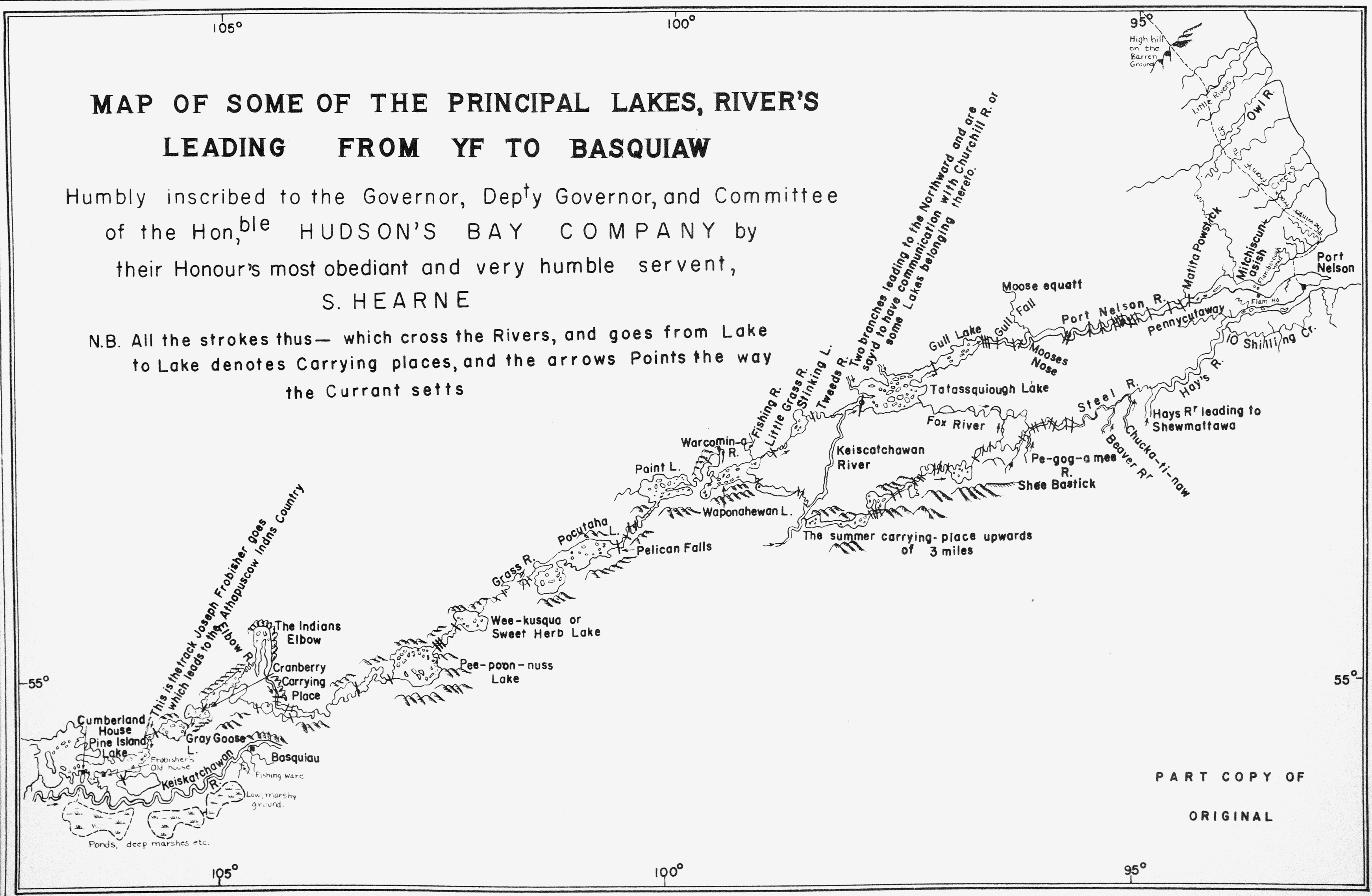 The following is the author's description of the photograph quoted directly from the photograph's Flickr page. "Samuel Hearne, who was a young sailor attached to the Churchill sloop before his Coppermine River venture in 1770, emerged rapidly to prominence with the company after his return from this epic journey. In 1774, he was chosen to lead the expedition to build the first Hudson%u2019s Bay Company trading post inland, this latter decision being a momentous alteration in the trading procedure of the Company. As a result of this journey and also of the second sojourn there in 1775, Hearne was able to lay down in some detail, for the first time, the normal water connections used between York Fort and the Saskatchewan river. Its coverage extends from the Bay at the mouth of the Nelson and Hayes rivers to Pine Island lake (Cumberland). As could be expected, Hearne had more difficulty ascertaining longitude than latitude, and as a result he has increased the east-west distance from York to Cumberland by 4 degrees, while being out only one degree of latitude. Immediately after this house building task was completed, Hearne was appointed Factor at Fort Churchill. (Warkentin and Ruggles. Historical Atlas of Manitoba. map 37, p. 96) ------------------- %u201CMap of Some of the Principal Lakes, River%u2019s Leading from YF to Basquiaw.%u201D (Samuel Hearne 1776). Map prepared in black ink by R.I. Ruggles from original manuscript (map G.1/20) in the Archives, Hudson%u2019s Bay Company, London. Manuscript map in black ink with light grey wash on Whatman%u2019s paper. Map drawn by Samuel Hearn. Manitoba historical atlas : a selection of facsimile maps, plans, and sketches from 1612 to 1969 / edited with introductions and annotations by John Warkentin and Richard I. Ruggles. Published: Winnipeg : Historical and Scientific Society of Manitoba , 1970. (map 37, p. 97) "